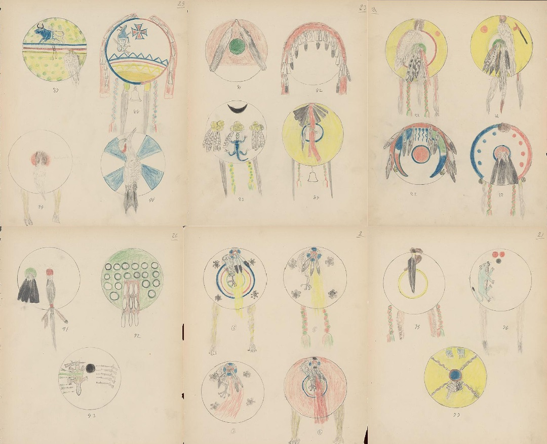 A collection of various Kiowa Indian shield designs from ledger drawings by Silver Horn, 1904.